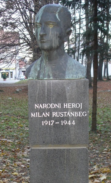 Bust of People's hero of Yugoslavia, Milan Rustanbeg, Park of the People's heroes in Delnice.